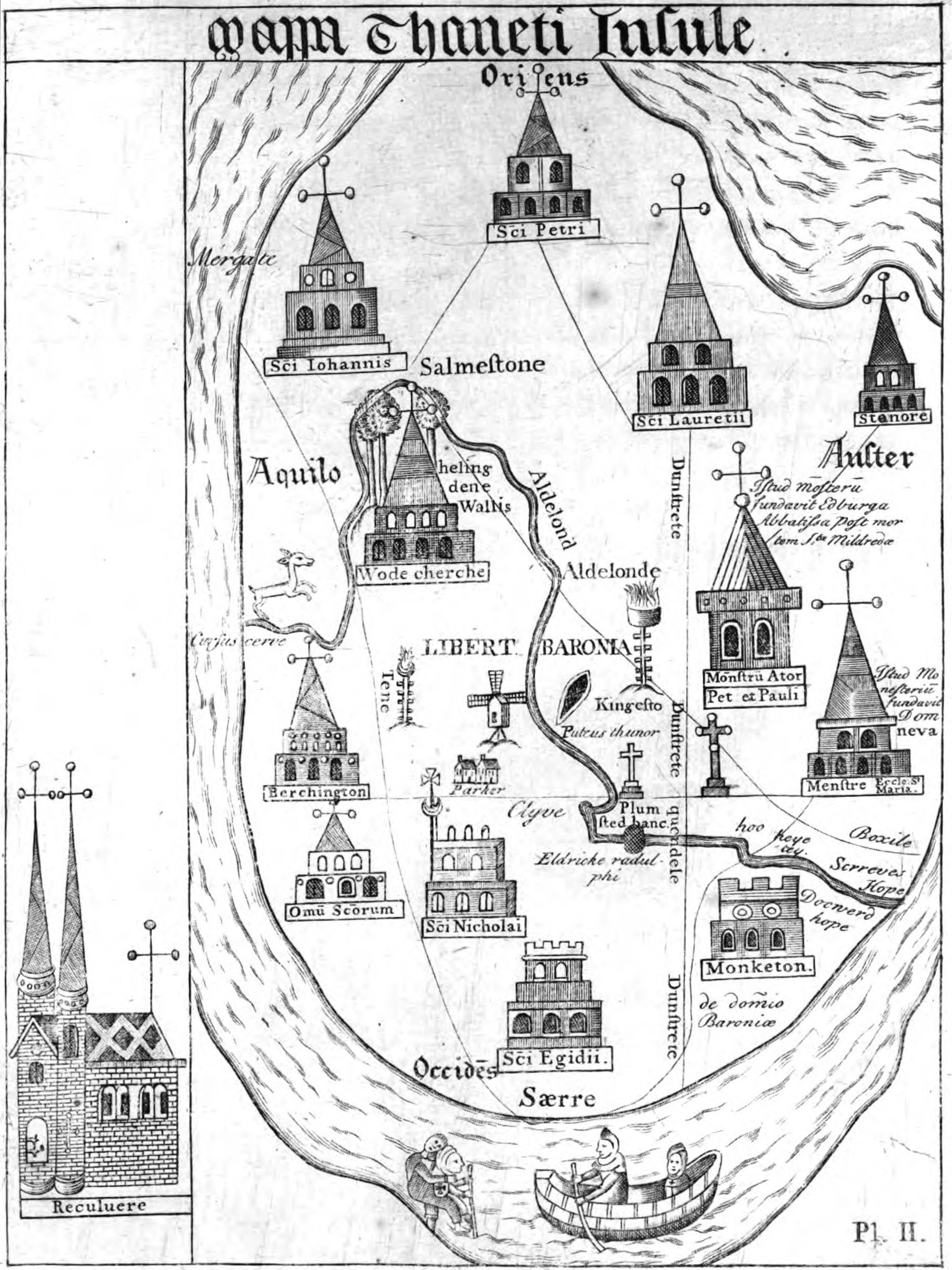 Map of the Isle of Thanet in the early 15th century, based on a map in Thomas Elmham's Historia Monasterii S Augustini Cantuariensis; for a photographic reproduction of the original map, see Rollason, D.W. (1982), The Mildrith Legend A Study in Early Medieval Hagiography in England, p. 10